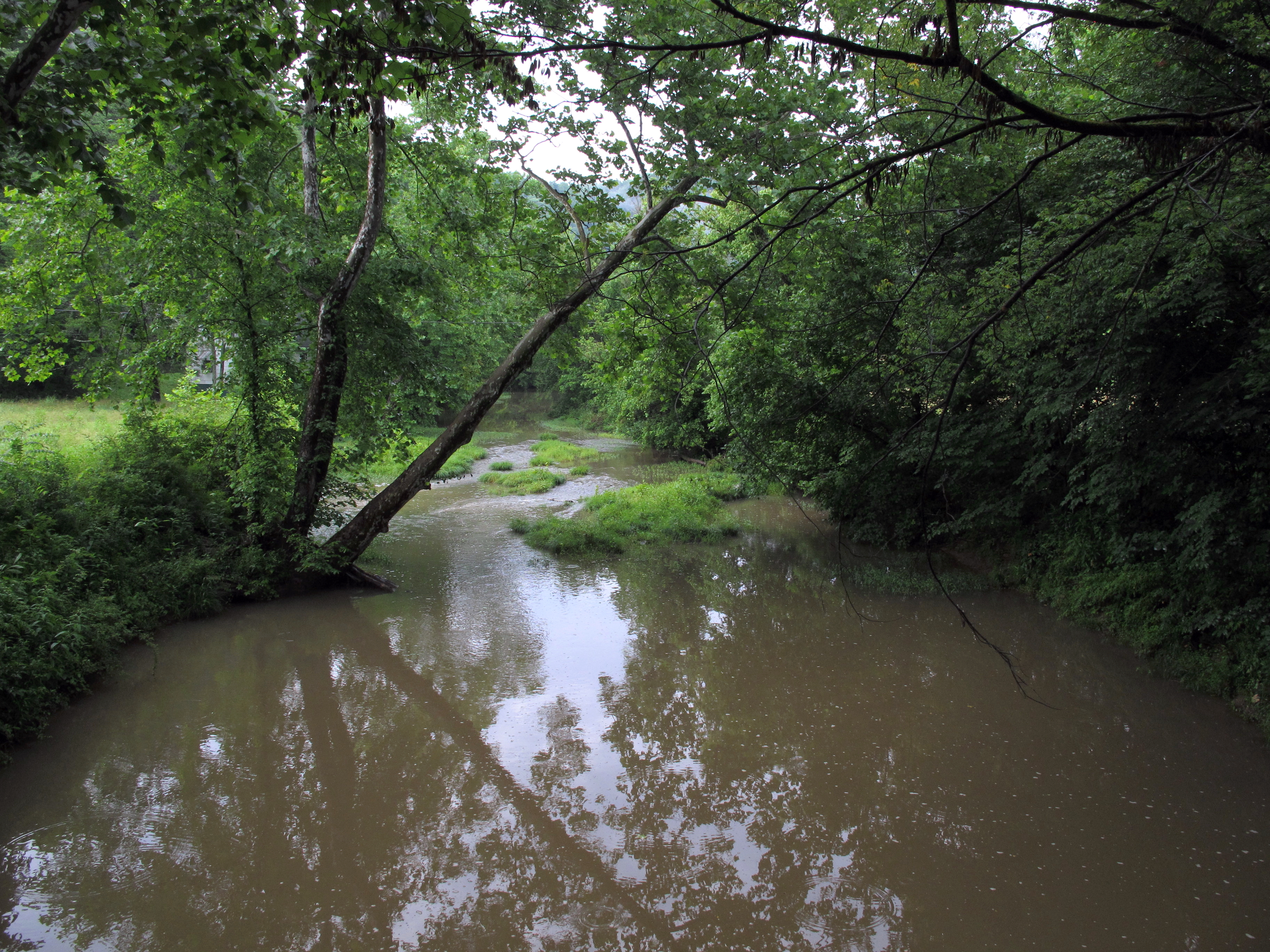 Indian Creek as viewed upstream from Big Moses Road (County Road 55/2) in Big Moses in Tyler County, West Virginia